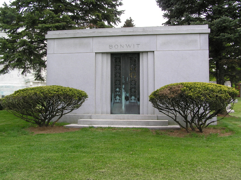 I took this photograph of the mausoleum of Paul Bonwit in Kensico Cemetery on May 3, 2006. —GNU Free Documentation License